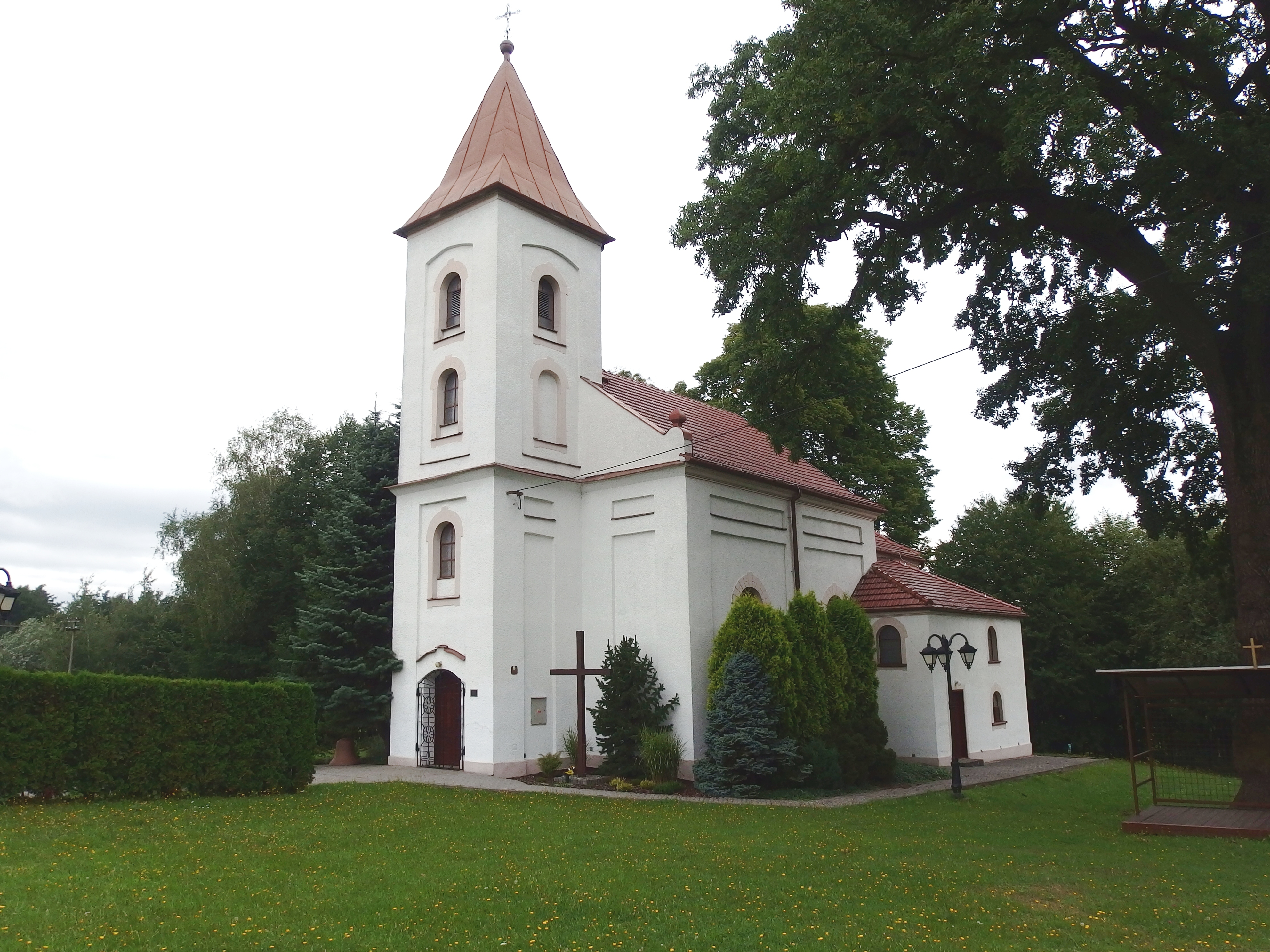 Markvartovice, Opava District, Czech Republic.